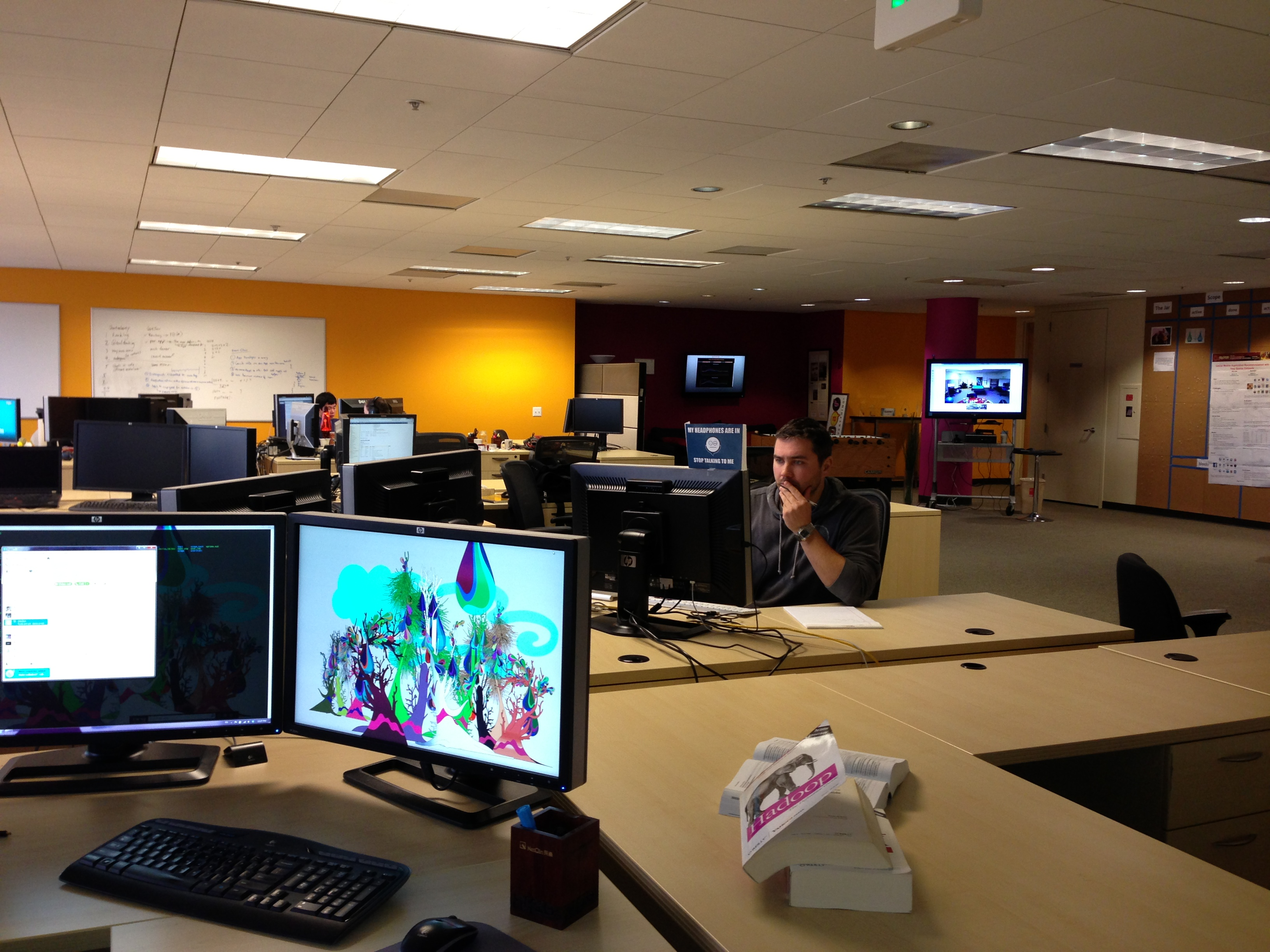 GetJar's Headquarters in San Mateo, CA